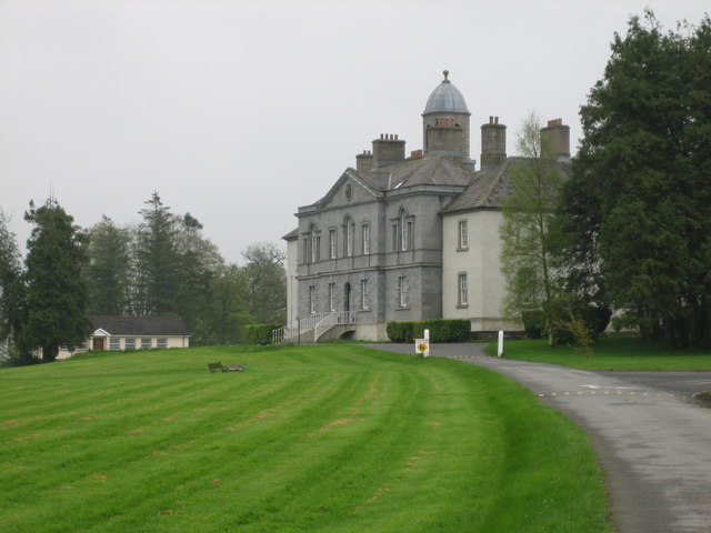 Wilson's Hospital, Multyfarnham. Andrew Wilson founded Wilson's Hospital in 1761 as a school for young Protestant boys and a hospital for old men, hence the name. In 1969, Preston School from Navan amalgamated with Wilson's. Preston's pupils included girls so coeducation was introduced. The link with Preston School was given permanent expression in 1993 when the new teaching block was named the Preston Building It operates as a seven-day boarding school, operating a five-day teaching week. This allows boarders the option of returning home at weekends or remaining at school to avail of our weekend programme. Day pupils are drawn from surrounding areas and participate fully in the life of the school.